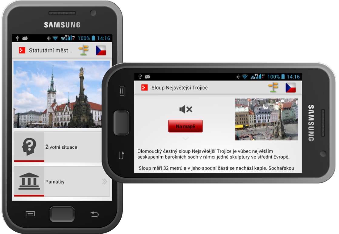 Android mobile application.